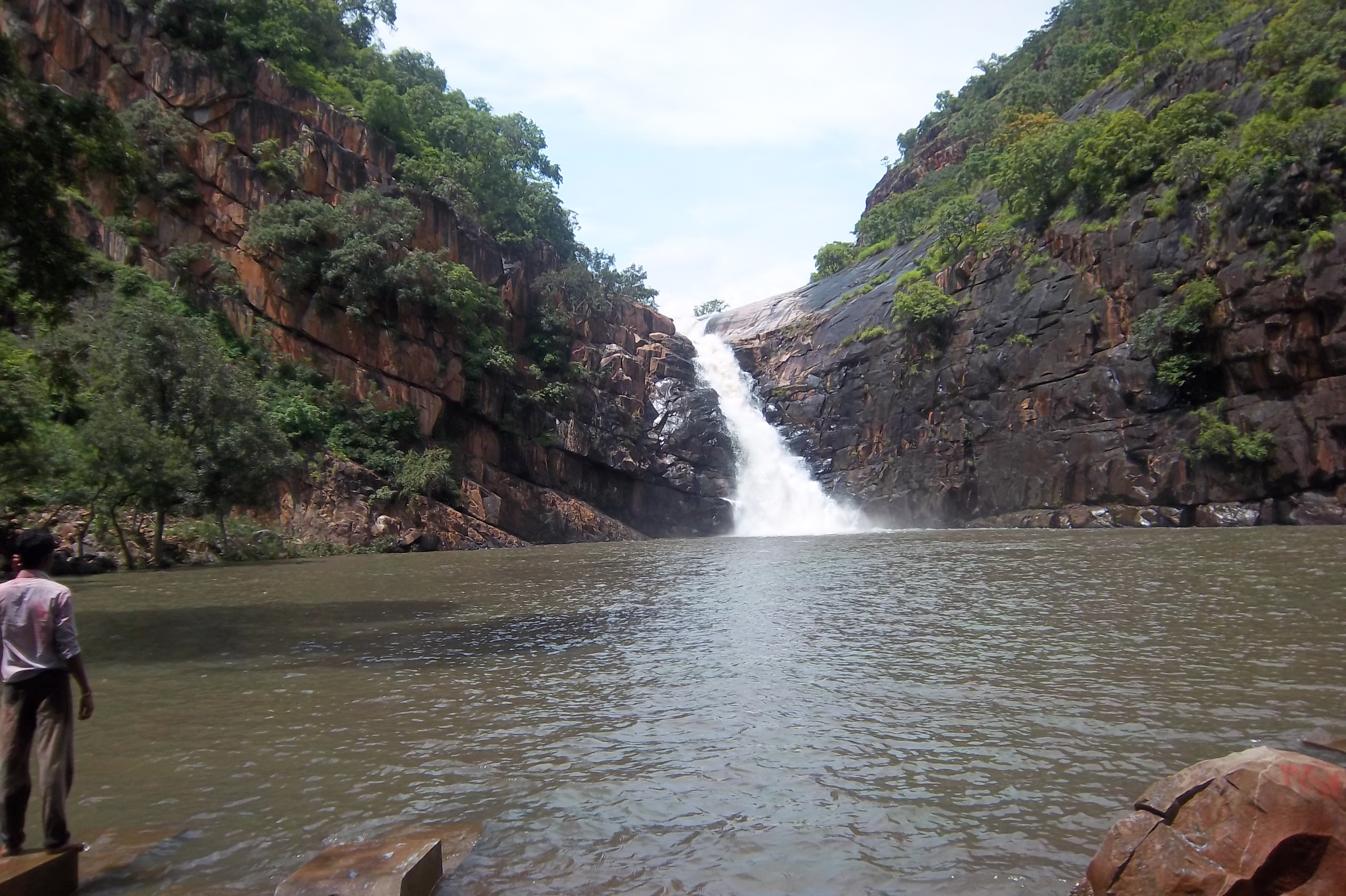 vellupalli